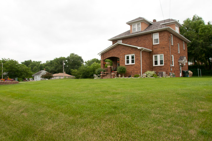 The view of what once held a church but now has just a church rectory.